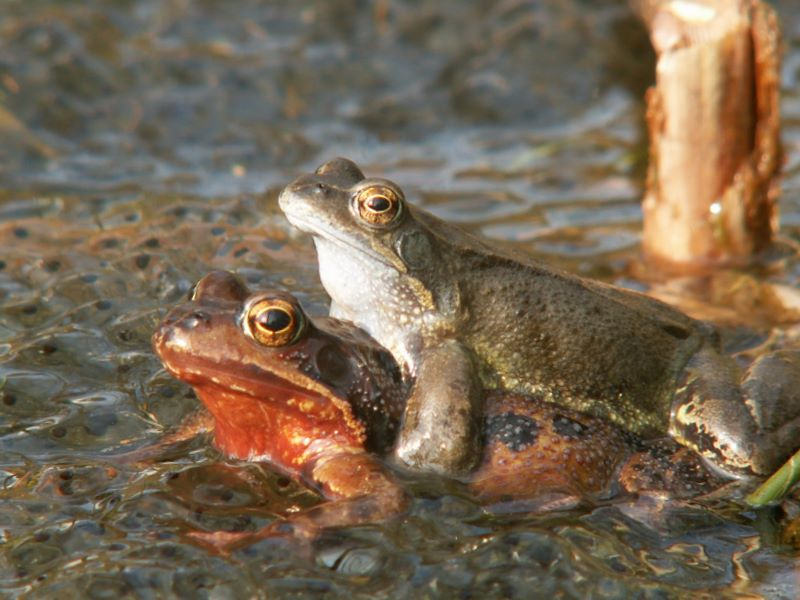 Amplex of Rana temporaria with strikingly contrasting colours in a pond full of spawn(Veluwe, the Netherlands)